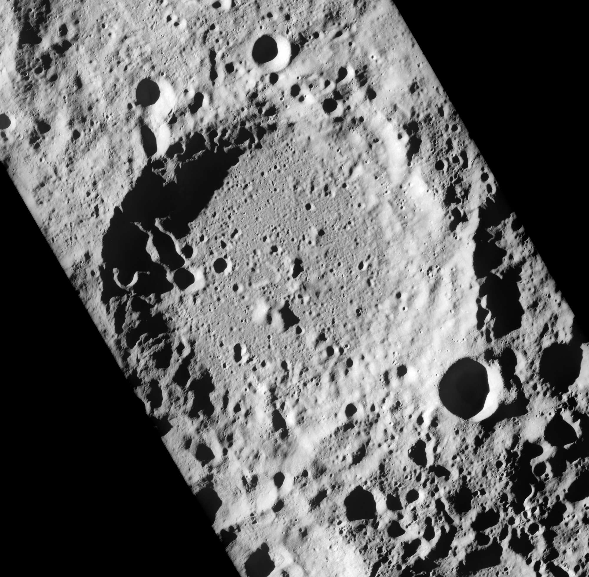 Ostwald facing east, on the far side of the moon. Rotated so that north is at top.